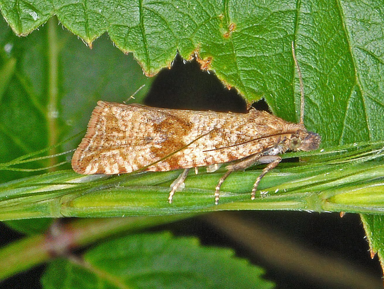 Celypha striana. La Thuile, Aosta, Italy